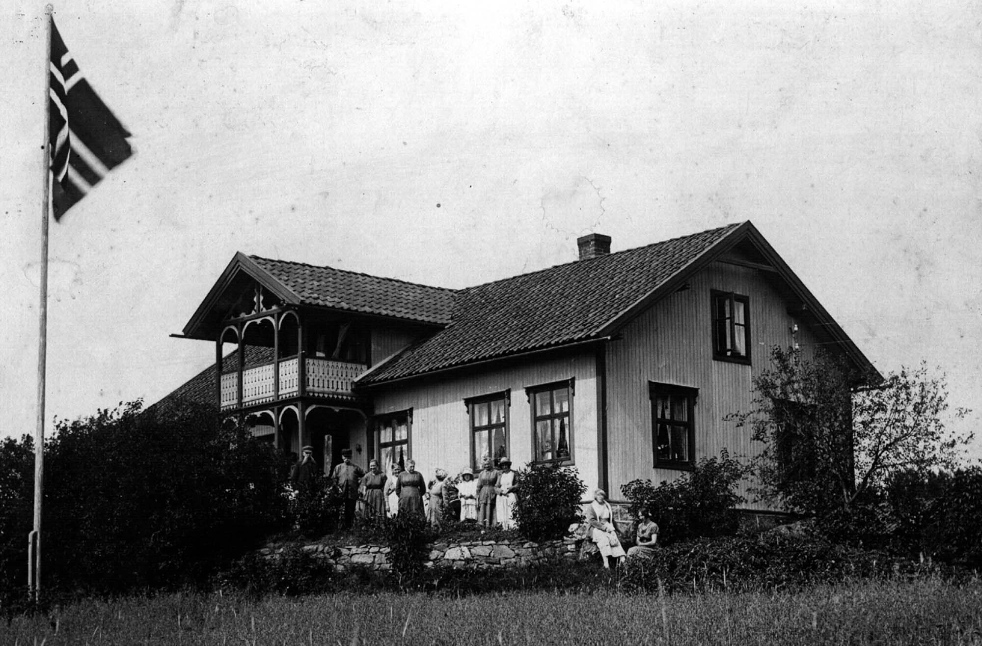 Fredheim, Stange, Norway; home to author Ingeborg Refling Hagen